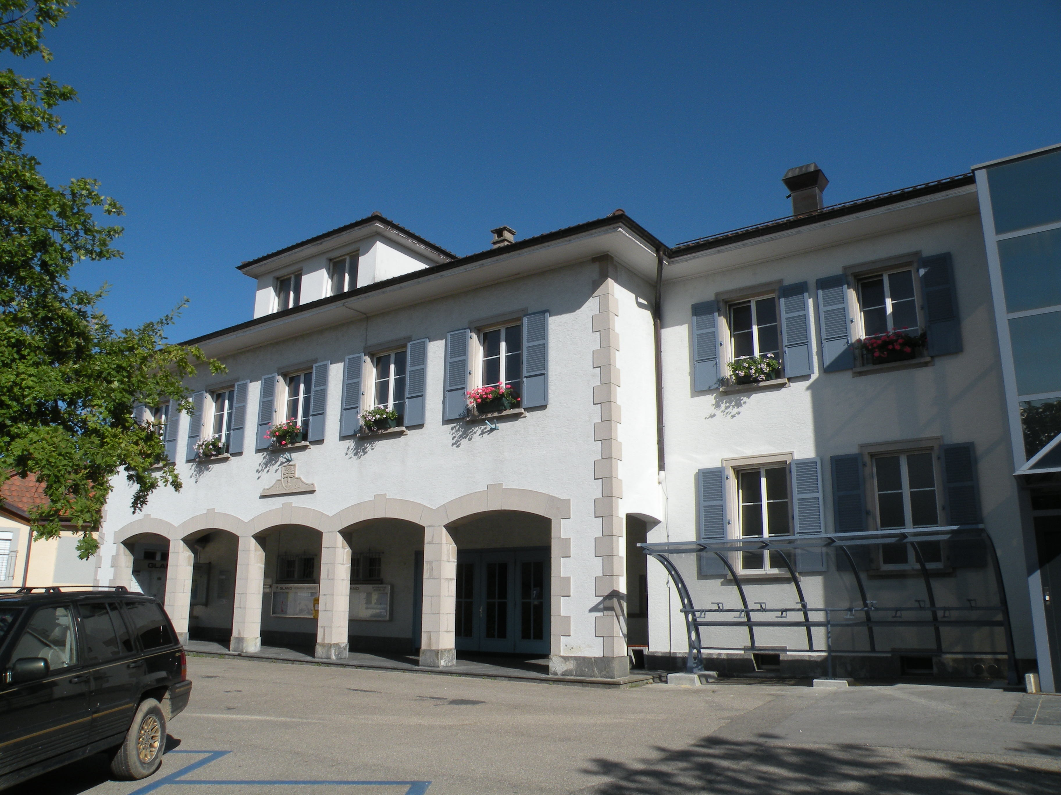 Town hall of Gland